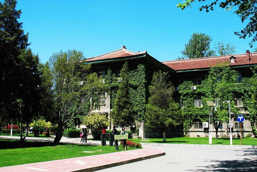 communication university of China, beijing